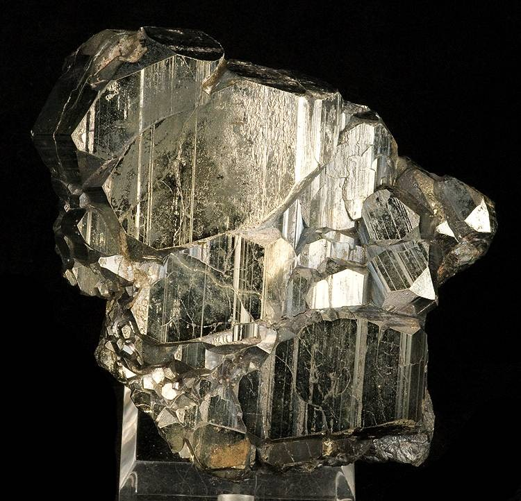 Molybdenite, Pyrite Locality: Rico Argentine Mine, Silver Creek, Rico District (Pioneer District), Dolores County, Colorado, USA (Locality at ) Size: 10.2 x 9.5 x 4.0 cm. Bravoite was the name given to an uncommon nickeloan variety of pyrite and this showy, old-time, Colorado cabinet specimen is from a very uncommon locale - the Rico Argentine Mine at Rico. A thin coating of brassy bravoite covers the lustrous, elongated, tabular, modified pyrite crystals on this very showy piece. Ex. Jaime Bird Collection, whose card indicates that he purchased the piece in 1962. For some time, these specimens were labeled as being pyrite coated by "Bravoite". This is completely incorrect, as analysis done by Dr. Pete Modreski at the USGS in Denver, showed that the thin grey coating or "film" on these pyrite crystals is actually a micro layer of molybdenite. Please refer to the post on the following link: This specimen is a prime example of this material showing excellent form and virtually no damage.